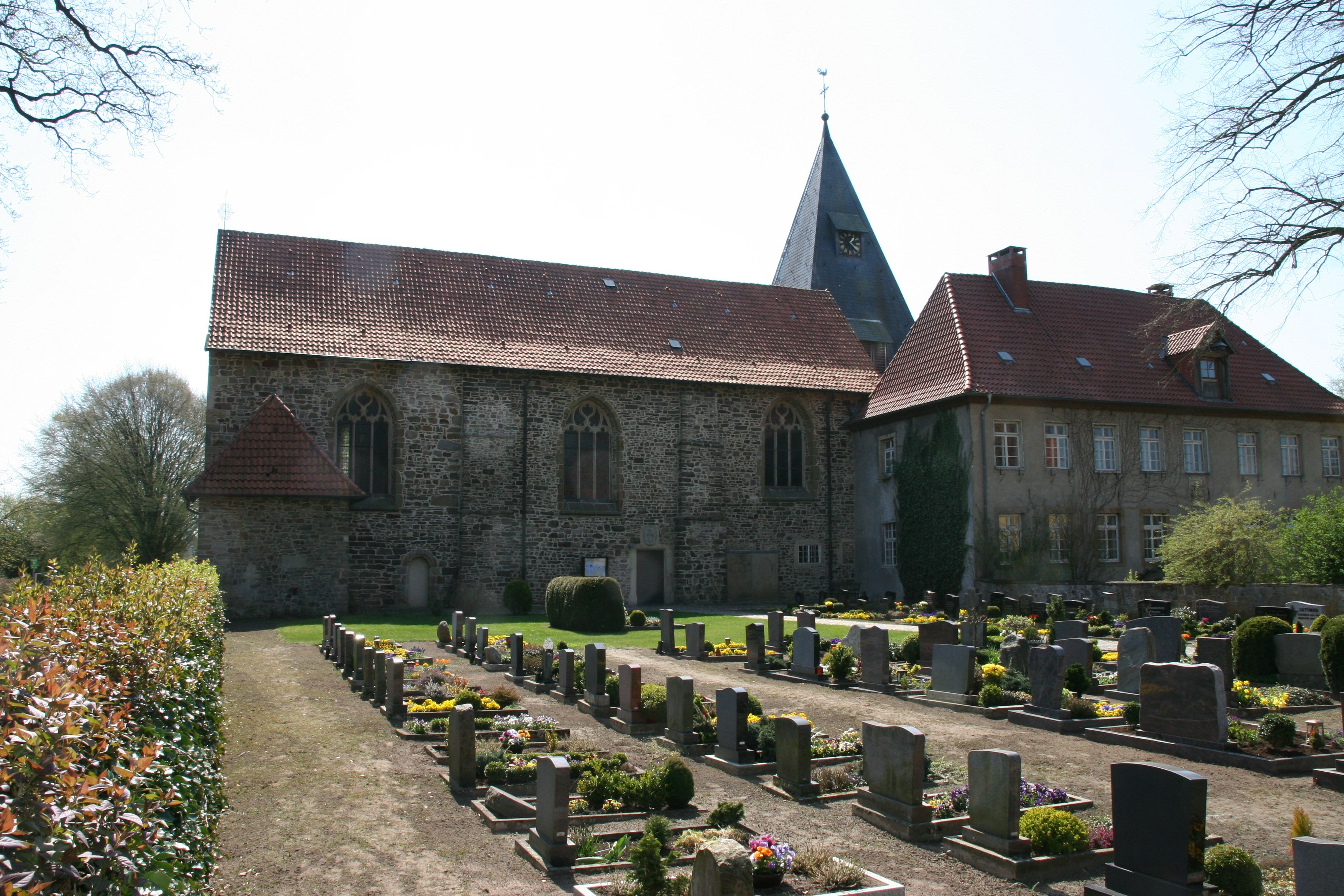 Malgarten: Church of the abbey Malgarten